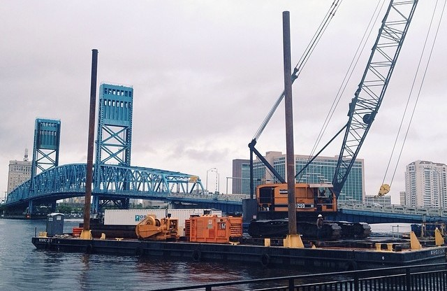 Mobro crane and barge